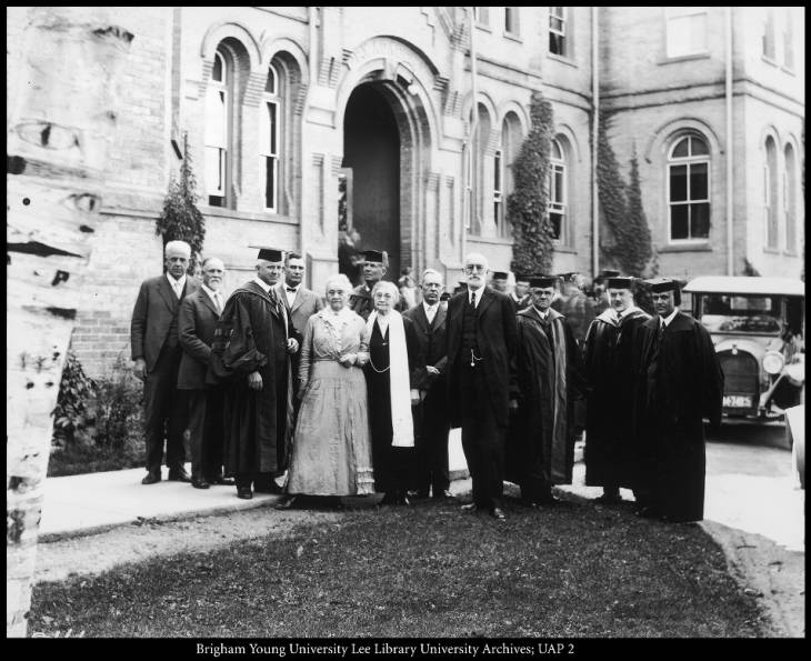 Members of the Board of Trustees and University officials at a commencement in the 1920s: Royal Murdock, left; Lafayette Holbrook, President Franklin S. Harris, Joseph A. Reese, Susa Y. Gates, former President George H. Brimhall, Zina Y. Card, Elder Joseph Fielding Smith (apostle of the LDS Church), President Heber J. Grant, and Elders James E. Talmage, John A. Widtsoe, and Stephen L. Richards.